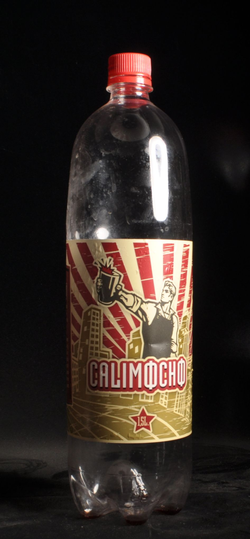 Bottle of calimotxo (Lidl)